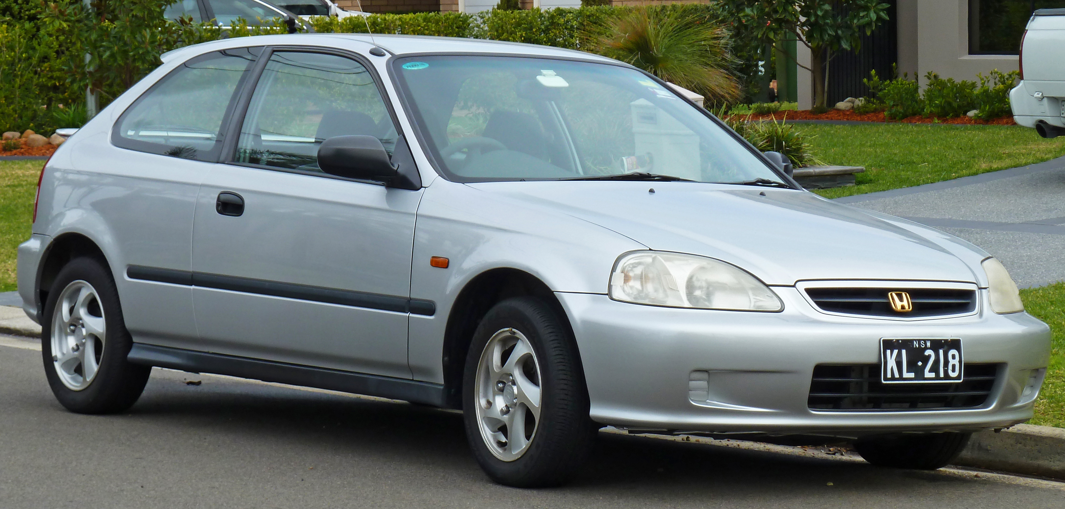 1998–2000 Honda Civic CXi 3-door hatchback. Photographed in Sylvania Waters, New South Wales, Australia.